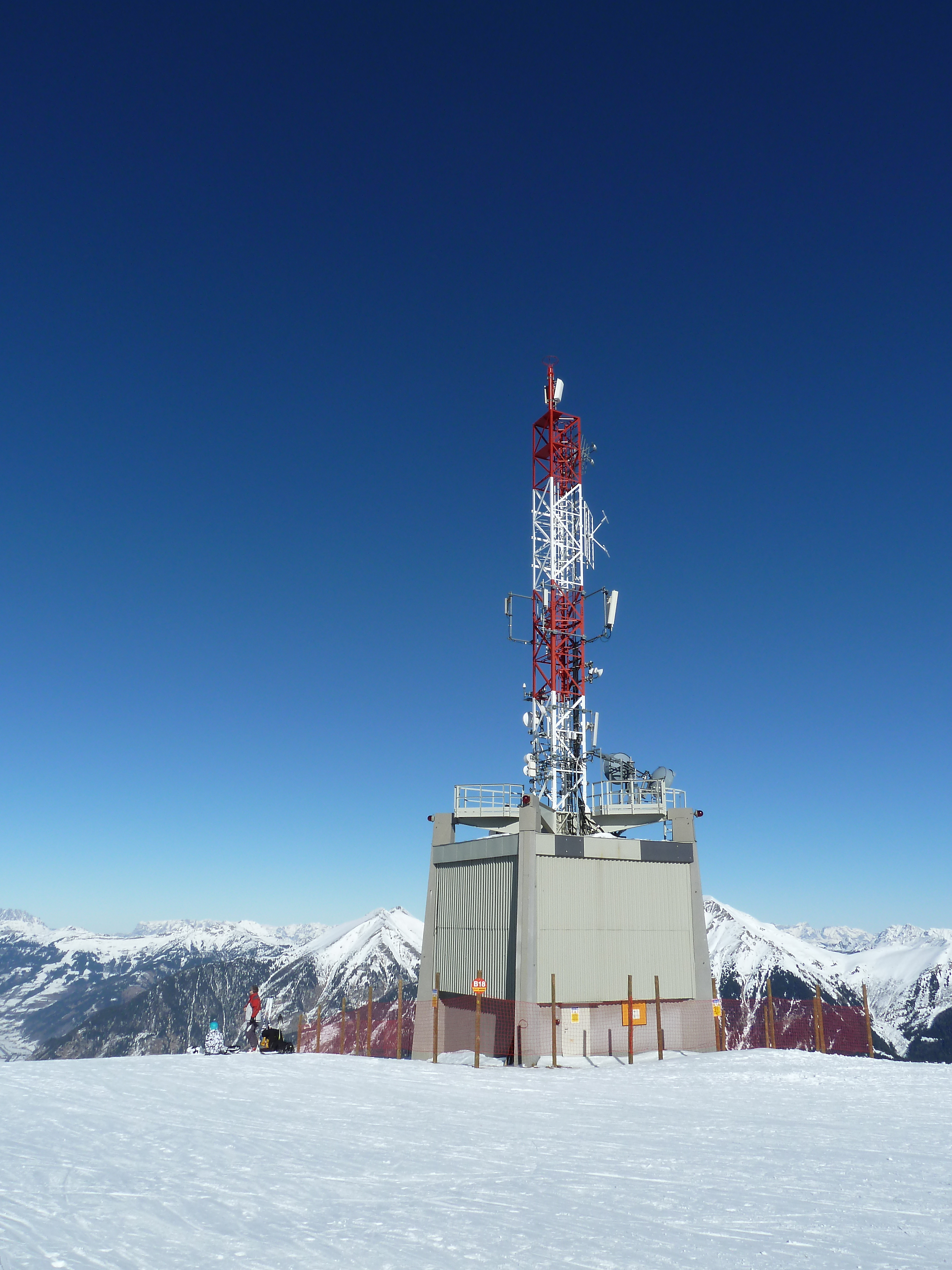 ORF-transmitting station on the peak of the Stubnerkogel. The Stubnerkogel (2246 m) is a mountain on the westside of Bad Gastein and the Gastein valley. To reach it`s top it is possible to walk up or to use the cable car (Stubnerkogelbahn) in the summer. In winter the Stubnerkogel is one of the well known skiing areas of the Gastein valley.